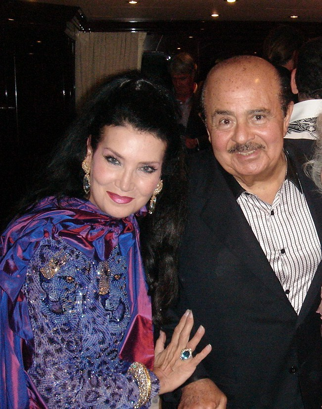 Adnan Khashoggi and wife Lamia at charity event